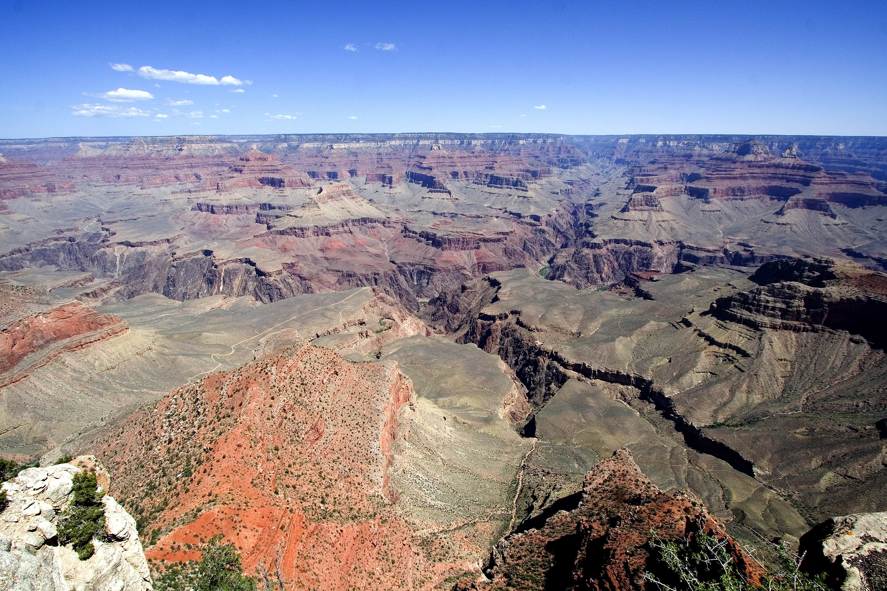 View from Yavapai Point. Brignt Angel Canyon, opposite Yavapai Point, (South Rim, view of Kaibab Plateau, North Rim). The thin, resistant Tapeats Sandstone forms the flatness in the inner canyon-(Tonto Platform), with the slope-forming units of Muav Limestone, and Bright Angel Shale accumulating upon it. The cliffs of the Redwall Limestone is one geologic layer above. (view slightly north-northwest) Isis Temple is the prominence in center. (Pipe Creek (canyon) is below on South Rim side). West of Isis Temple is Trinity Creek and its watershed canyon. Behind Isis Temple is the Phantom Creek, and watershed, with Buddha Temple and Buddha Cloister, just to the right (two points extend south to form Buddha Cloister -- Sturdevant Point, left, and Johnson Point (right over Bright Angel Canyon). (below, right, to Isis Temple) Cheops Pyramid (over whitish slopes). Isis Temple and Cheops Pyramid sit at the southwest fault block (a horst) at Bright Angel Canyon (and south wall of Phantom Creek (canyon)). The Grandview-Phantom faultline crosses, from NW to E-by-SE, (to Grandview Point-(South Rim), to turn, due-south). It intersects, here, at Granite Gorge with the Bright Angel Fault (NNE-by-SSW, approximate, north rim and south rim (up Indian Garden, Garden Creek)). The Unkar Group Horst which Isis and Cheops sit on has 3 sub-faults, as part of the horst-landform. The reddish and lavendar slopes at the promincence's base are Hakatai Shale, over Bsss Limestone. The Shinumo Quartzite forms the erosion-resistant cliff, above. (with no Tapeats Sandstone-(Tapeats Sea), the Shinumo was an island; instead, Bright Angel Shale, and Muav Limestone, above Note: Trinity Creek (watershed), left; Ninetyone Mile Creek wateshed (0.5 mi east); unnamed Wash, (drains Cheops Pyramid, on Unkar Group Horst), Wash = "Eightynine Mile Wash", and opposite outfall of Garden Creek (& Canyon, with Bright Angel Trail, from Maricopa Point region, South Rim); and Bright Angel Canyon (& Creek), photo right)